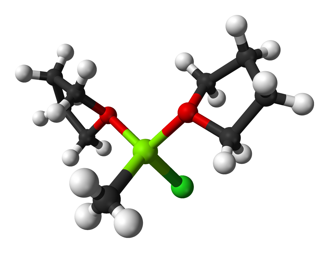 Ball-and-stick model of methylmagnesium chloride, CH3MgCl, coordinated by two tetrahydrofuran molecules Colour code: Carbon, C: black Hydrogen, H: white Oxygen, O: red Magnesium, Mg: light green Chlorine, Cl: green